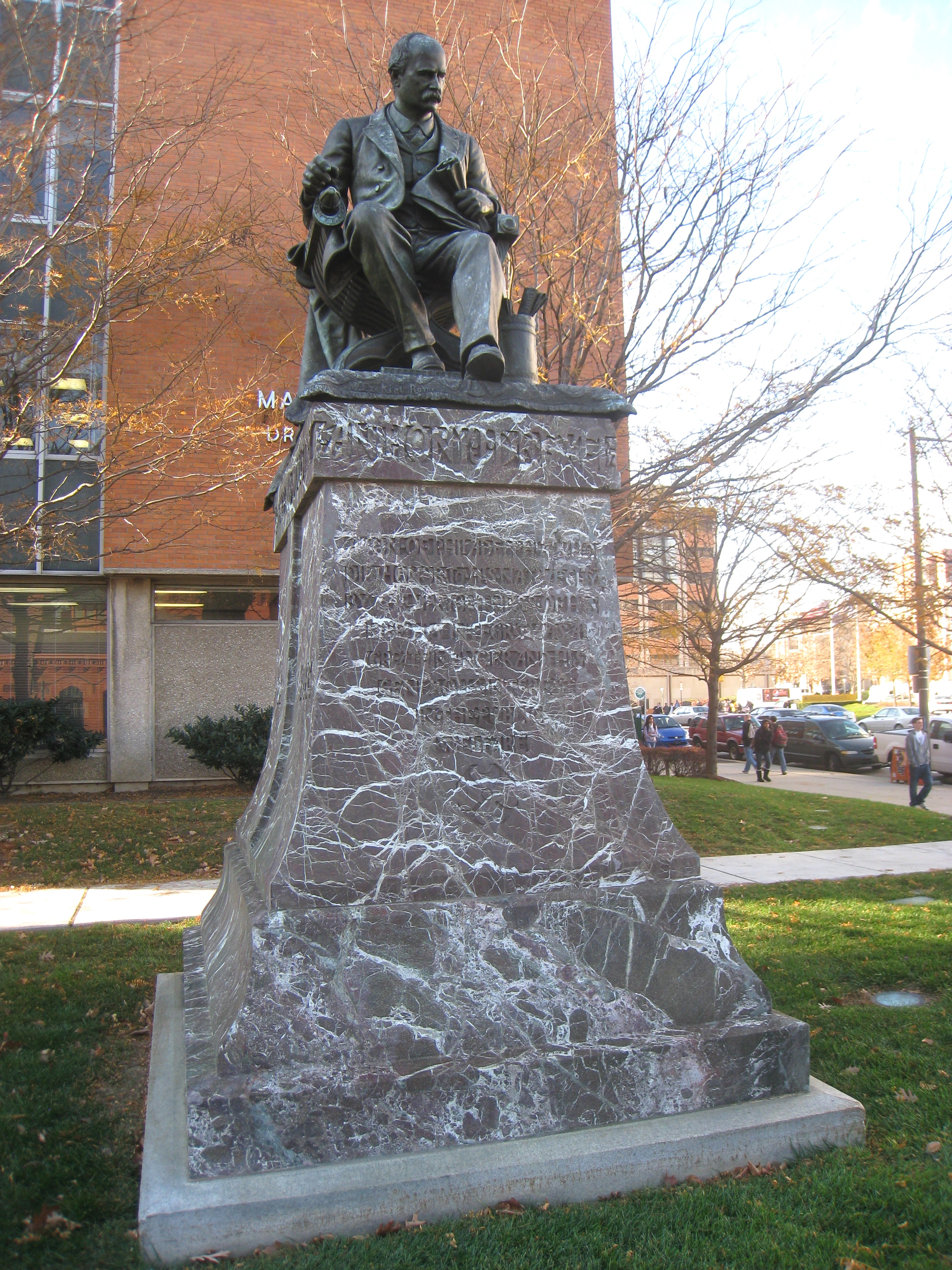 Statue of Anthony J. Drexel by Moses Ezekiel (1844-1917), Drexel University, Philadelphia , Pennsylvania, USA.